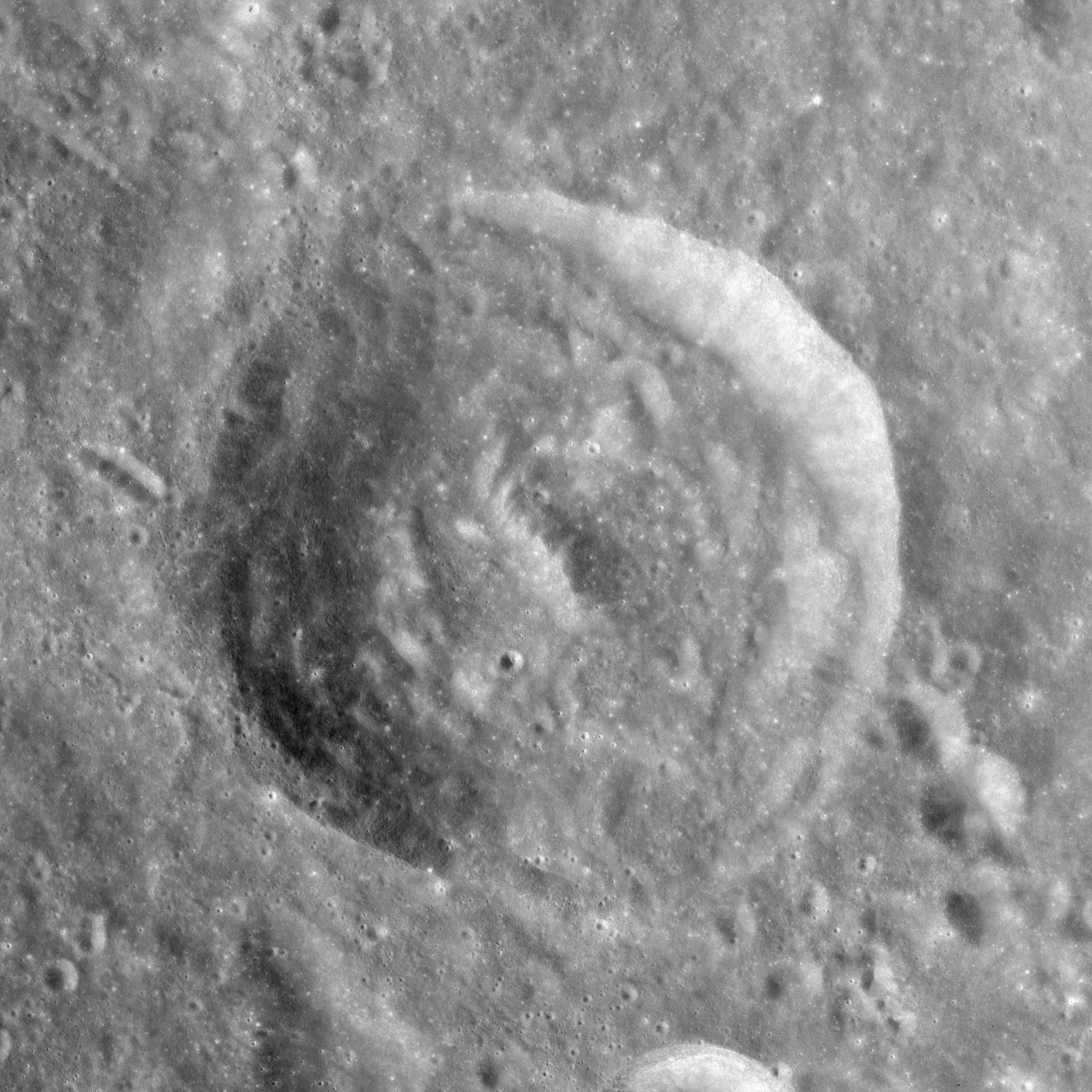 Brunner, on the far side of the moon.